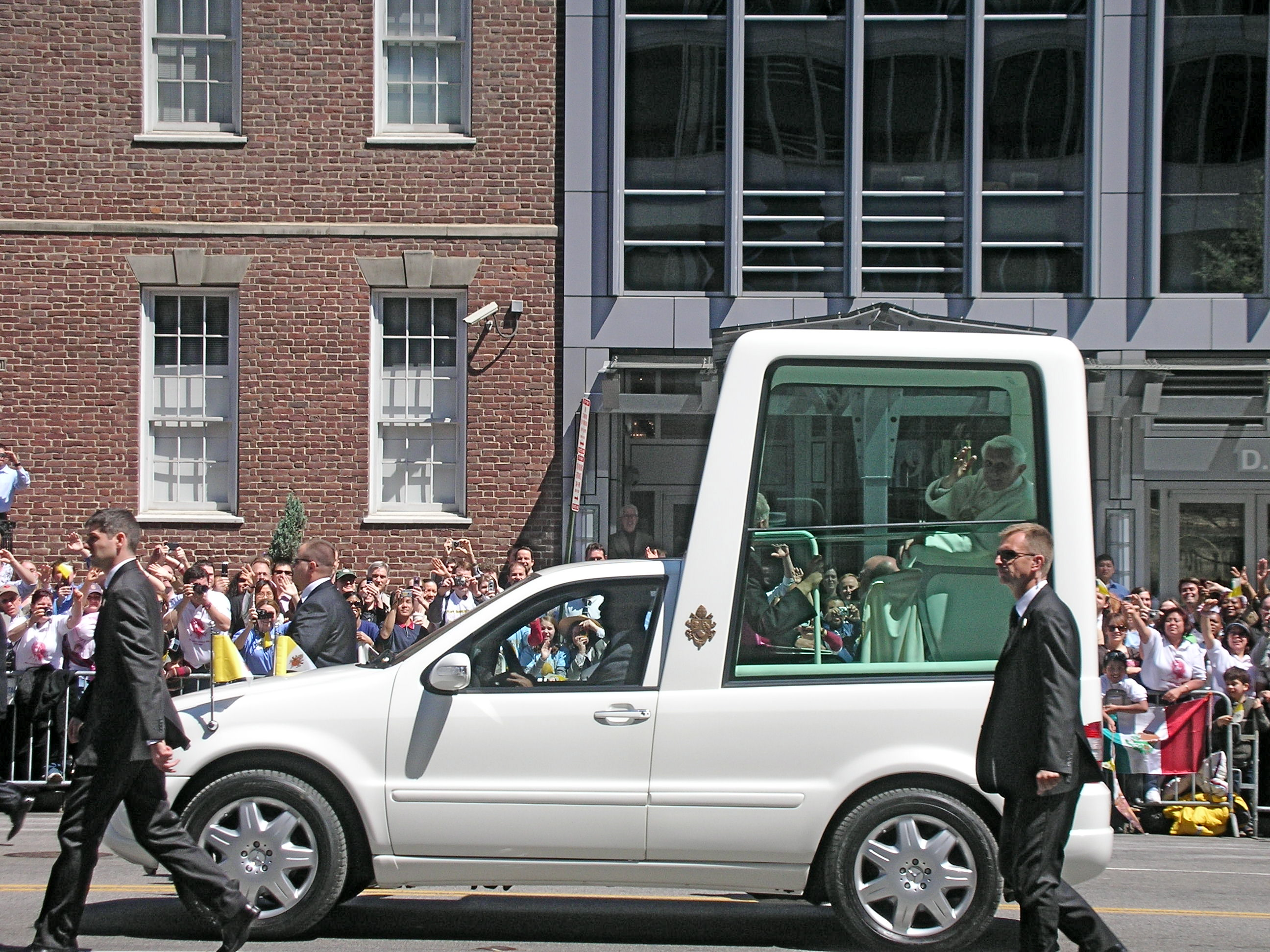 Pope Benedict XVI travels in his Popemobile on Pennsylvania Avenue in Washington, D.C. during his 2008 visit to the United States